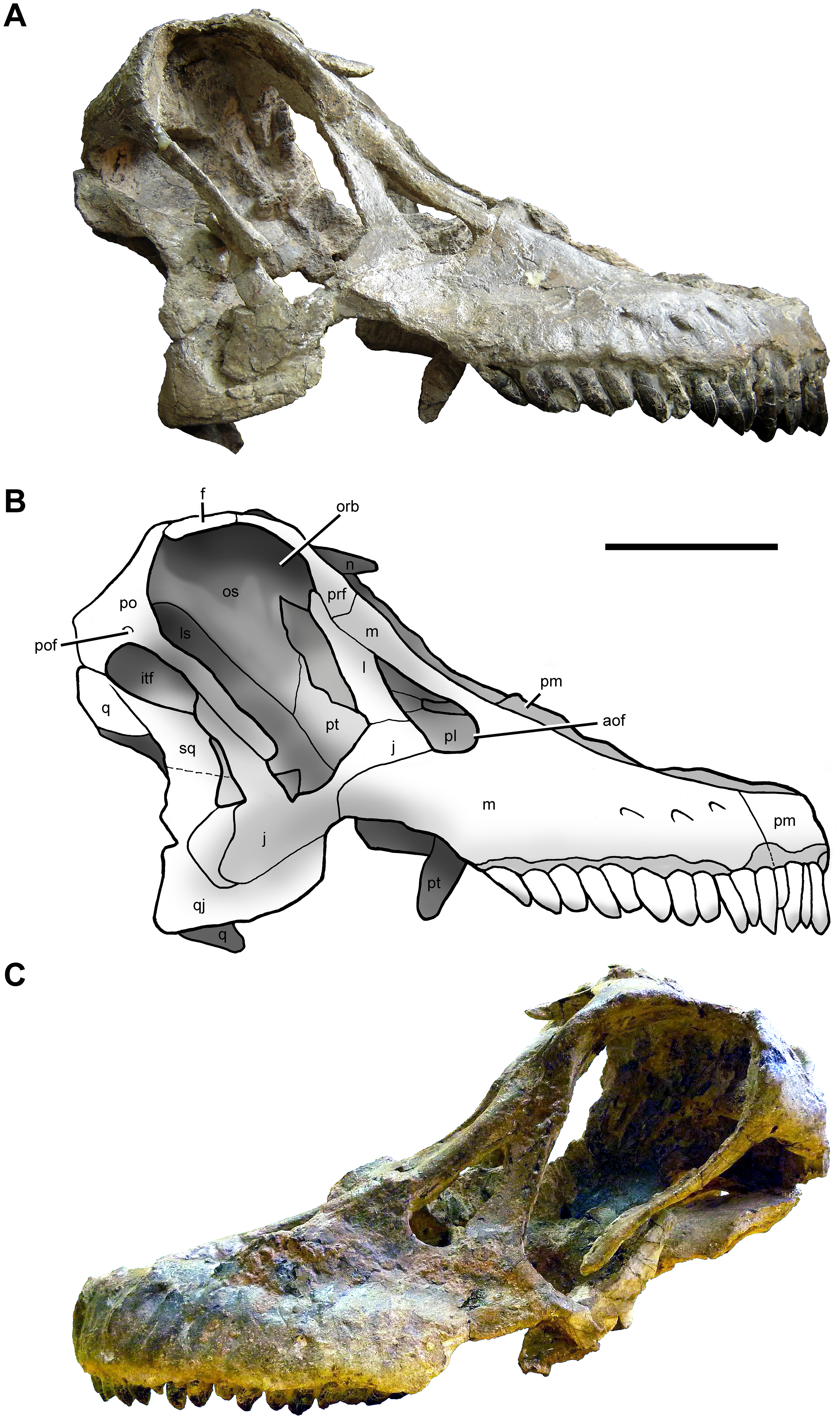 Cranium of Sarmientosaurus musacchioi gen. et sp. nov. (MDT-PV 2). Photographs (A, C) and interpretive drawing (B) in right lateral (A, B) and left lateral (C) views. Abbreviations see text. Scale bar = 10 cm.